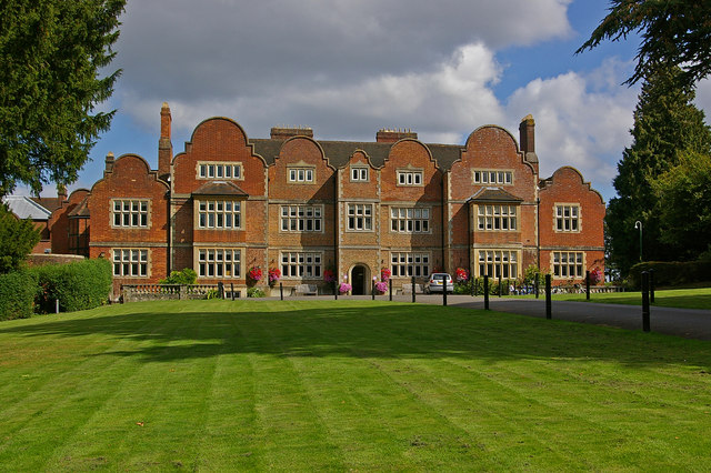 Milton Court This grade II* listed Jacobean mansion was built in 1611 for the Evelyn family as a dower house for their main family seat of Wotton House, staying in the family until the 1830s. Since the mid 20th century it has been used as offices, and is currently home of Unum Ltd, a life assurance company. For listing particulars, Viewed during the 2009 Heritage Open Day weekend.